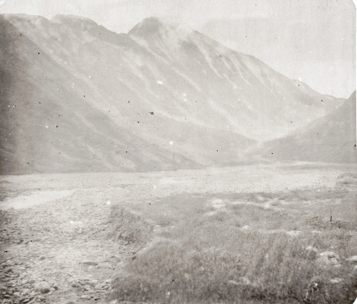 Mountain Zilgi-Khokh and source of River Terek (Gora zil'gi-khokh istoki r. Tereka).